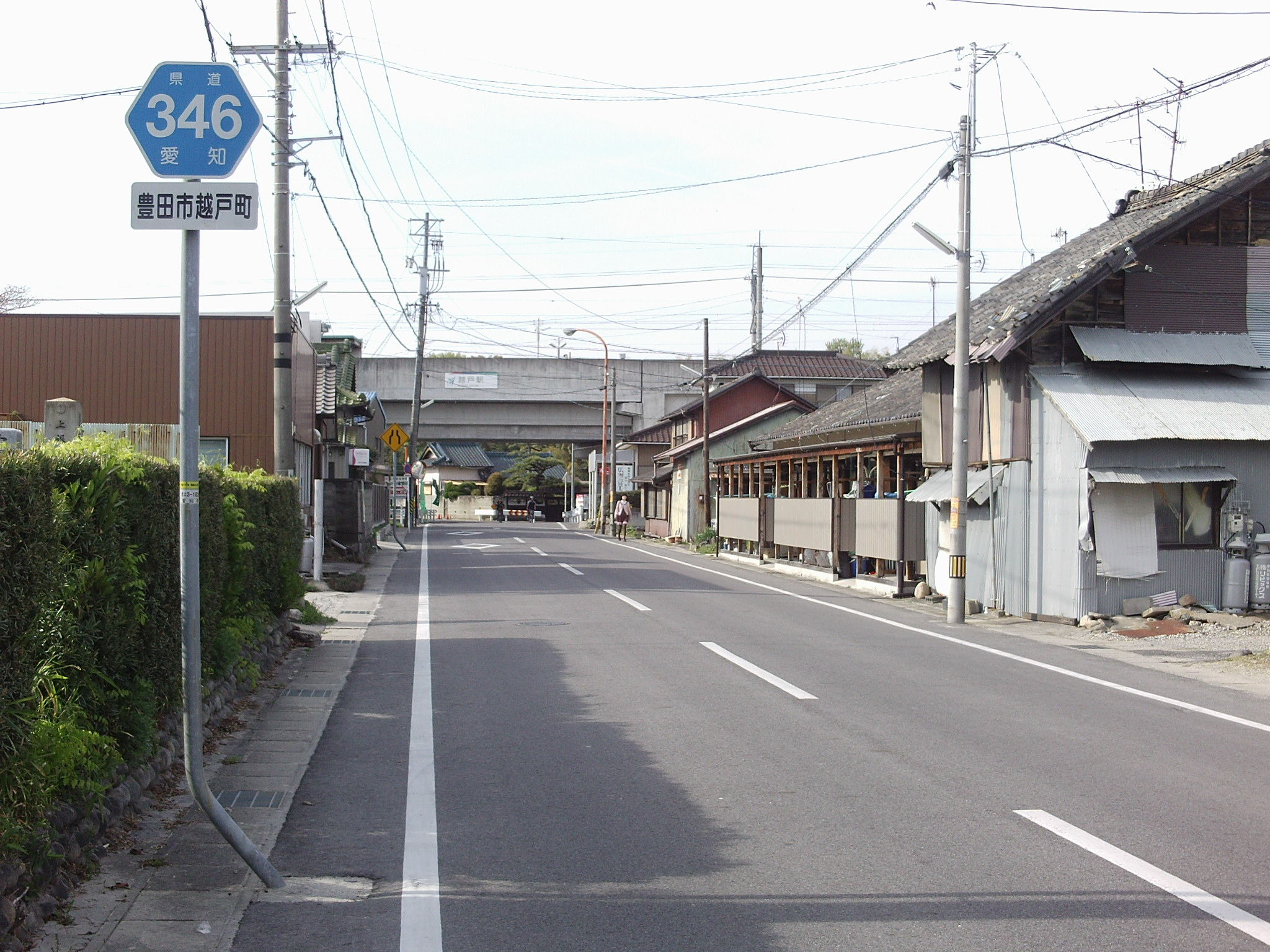 Aichi prefectural road No.346 in Koshidocho, Toyota, Aichi.